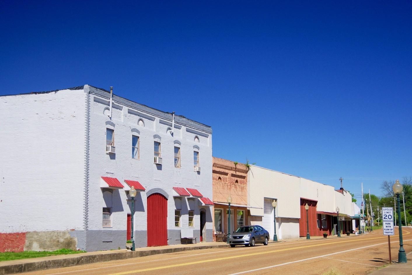 Buildings along Main Street (State Route 89) in Sharon, Tennessee, United States.